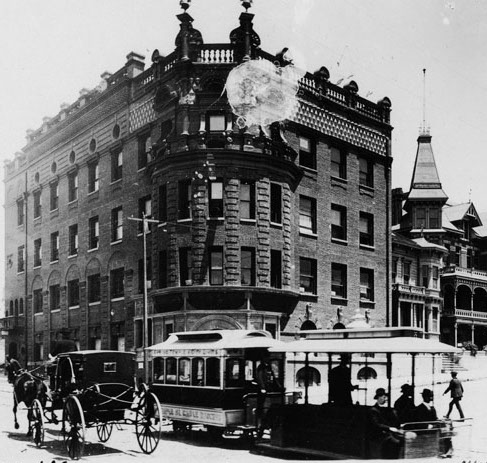 Temple of the Women's Christian Temperance Union a.k.a. the Temperance Temple, built 1888, northwest corner of Temple and Broadway, Los Angeles, 1890